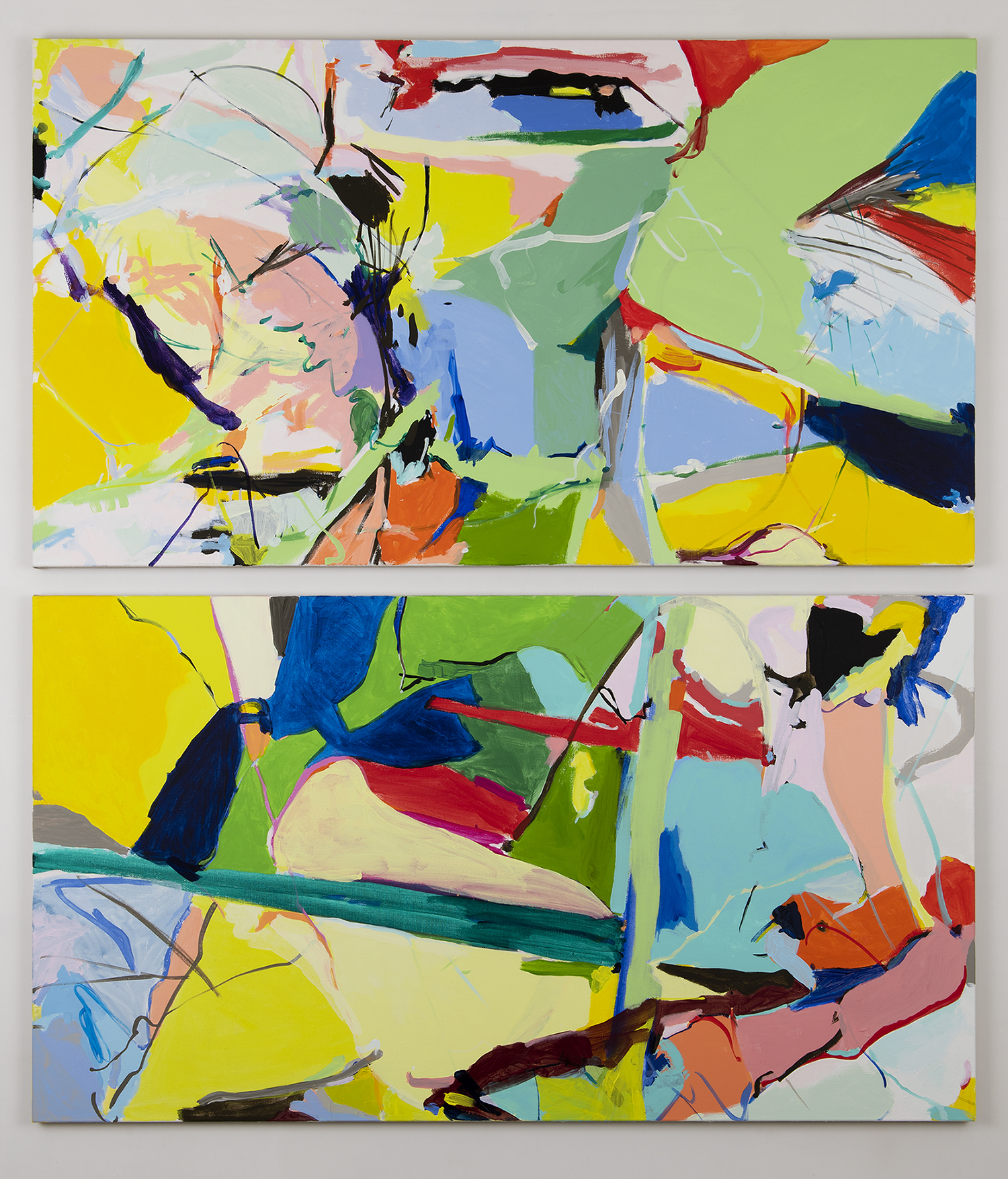 Susanne Kathlen Mader, Jardinage impromptu I, acrylic on canvas, 2019.